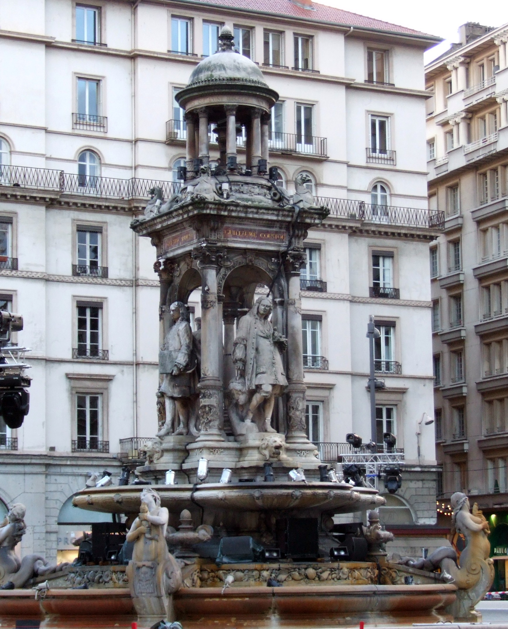 Lyon, FRANCE